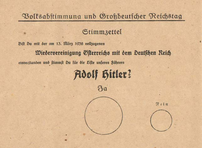 Voting ballot from 10 April 1938. ("Referendum and Großdeutscher Reichstag; Ballot; Do you agree with the reunification of Austria with the German Reich that was enacted on 13 March 1938 and do you vote for the party of our leader; Adolf Hitler?; Yes; No")